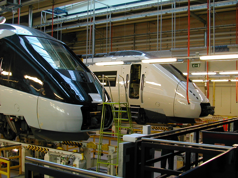 DSB DMU IC4 photographed at workshop.